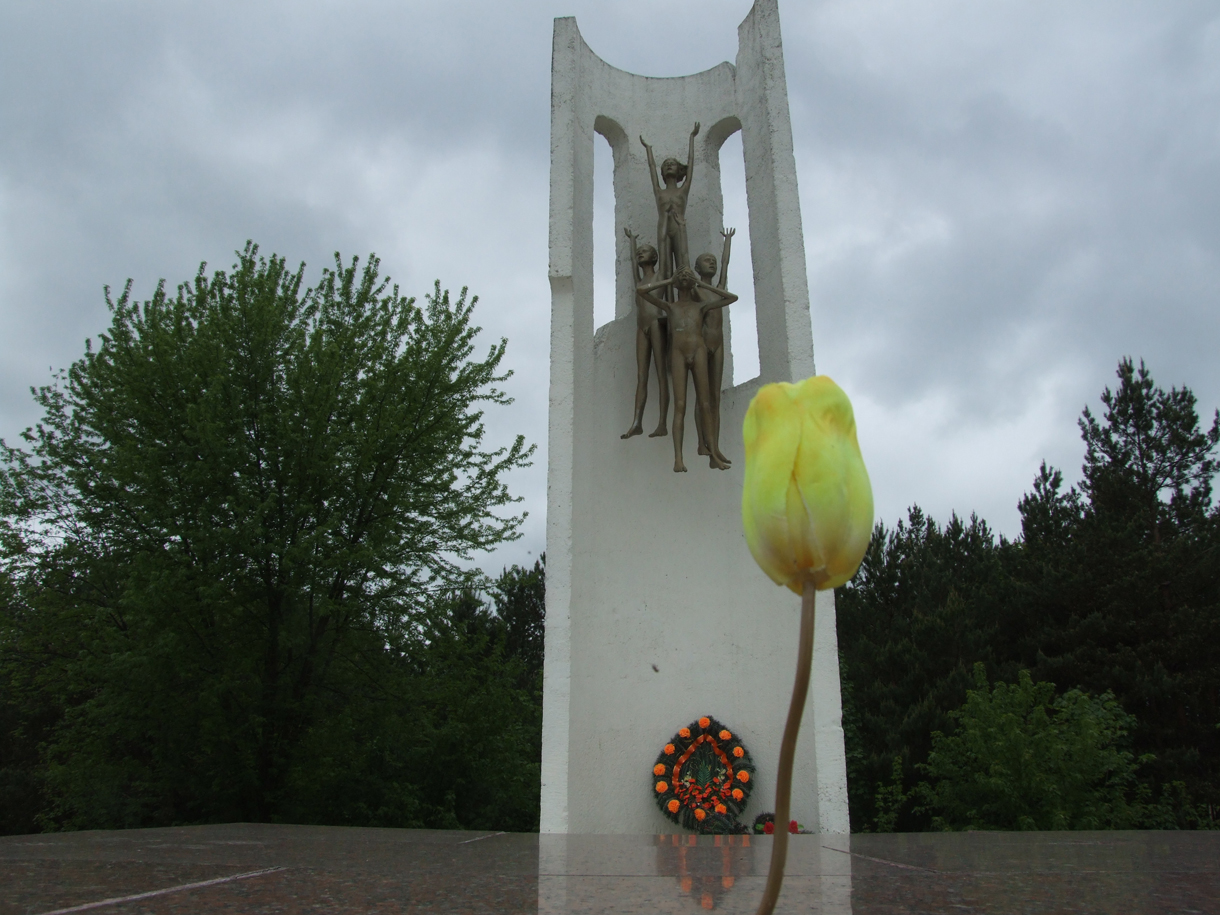 Monument "Protest" commemorating 54 children and a pedagoge murdered by Germans on 23. September 1942 near the town of Domachevo (Belarus). The monument was erected in 1987. Artist: A. Soljatytskij. The monument is located near the road leading to Domachevo, one kilometer northwards the village Leplevka.